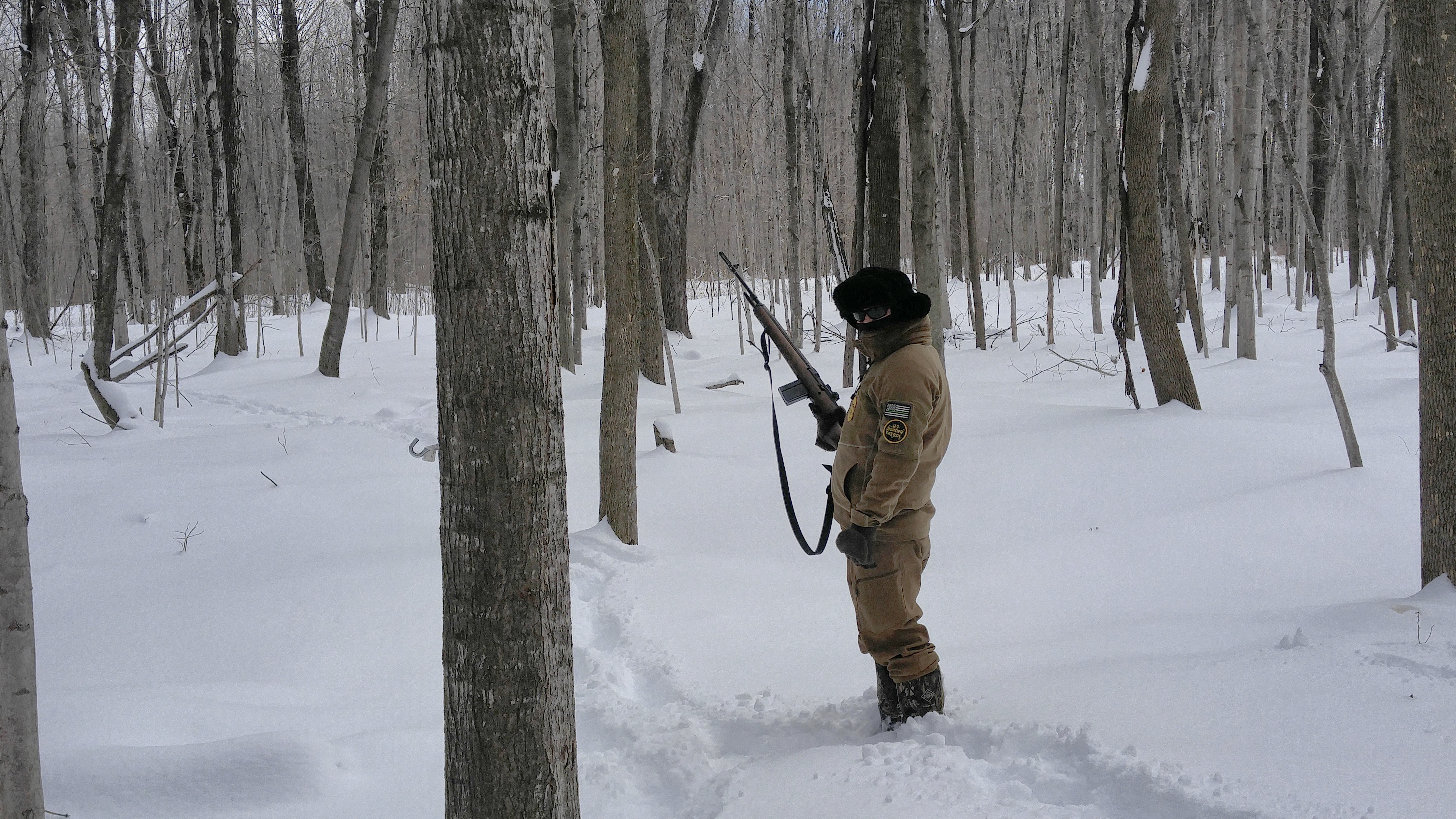 A United States Border Patrol Agent with a M14 rifle is shown tracking someone in deep snow and very cold conditions.